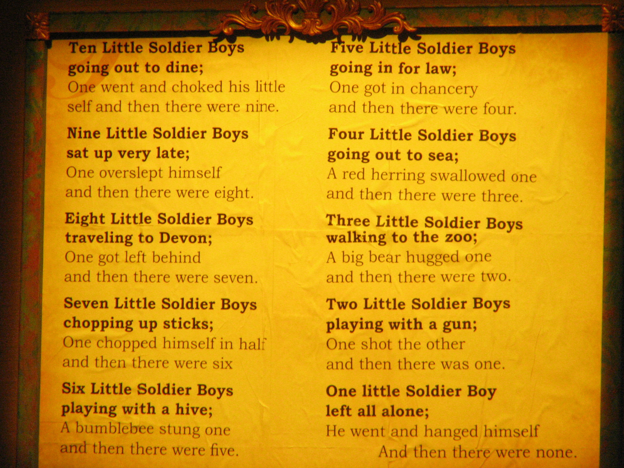 The poem of Agatha Christie's "And Then There Were None."